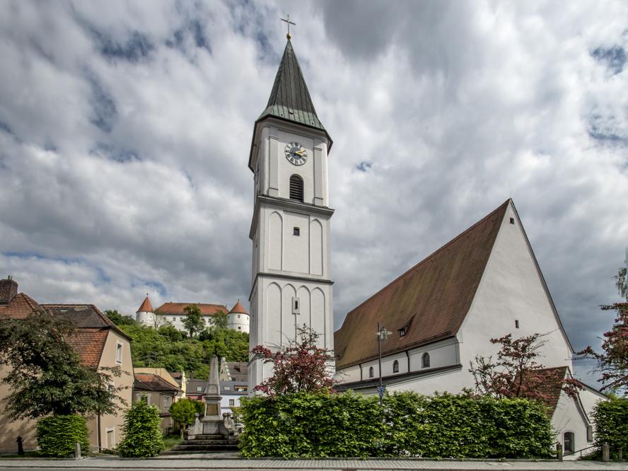 Stadtpfarrkirche Wörth an der Donau